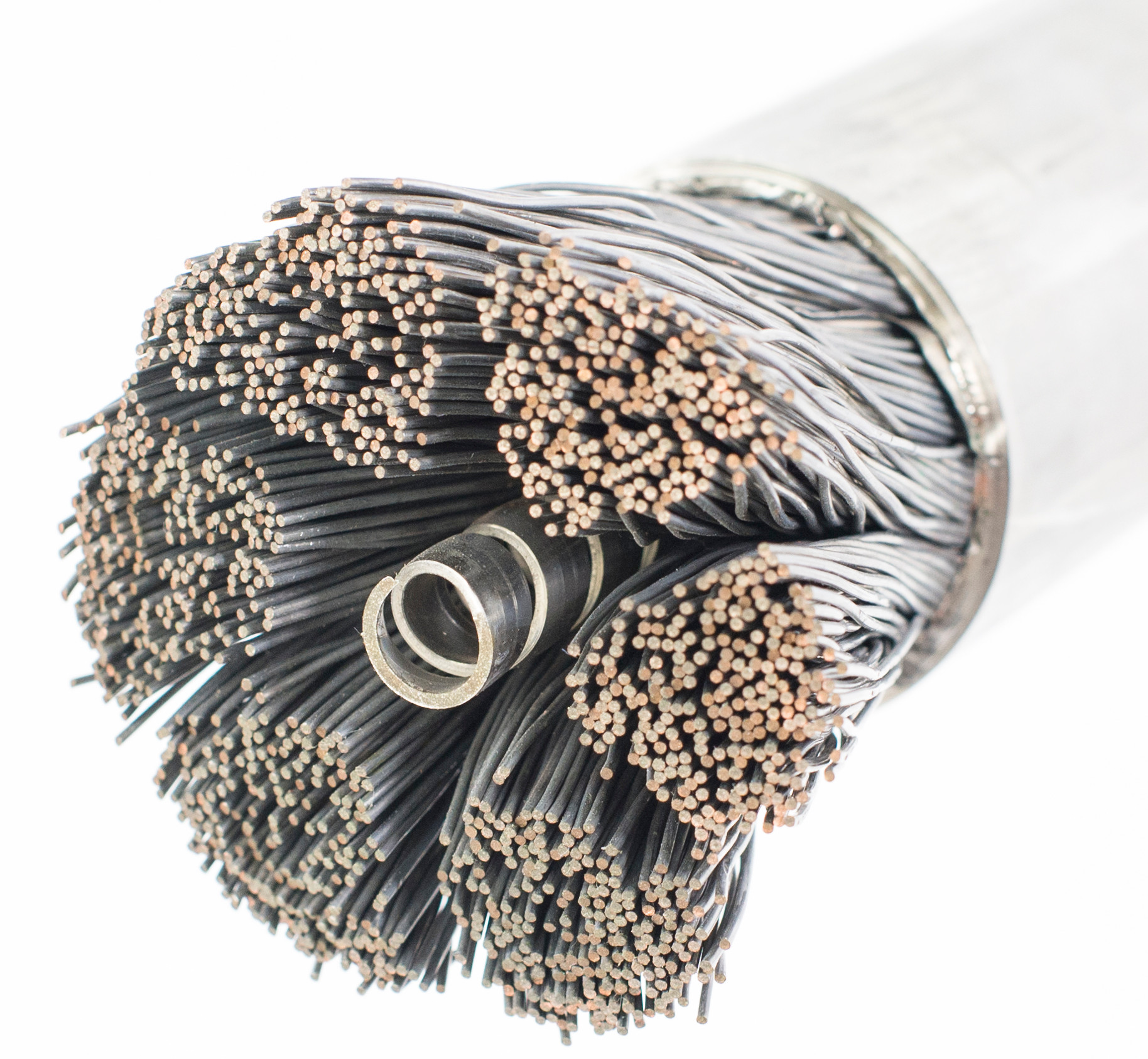 ITER TF conductor after partial removal of the stainless steel jcket to reveal in the internal components. Images by Charlie Sanabria. SULTAN-tested cable was provided by courtesy of Pierluigi Bruzzone (Plasma Physics Research Center) with agreement from Fusion for Energy.